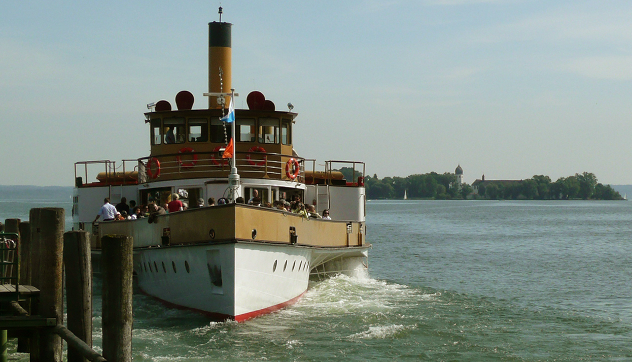 The Ludwig Fessler (1926) paddle wheels ship arriving at PRIEN on the Chiemsee. The island Herreninsel in background. Upper Bavaria.